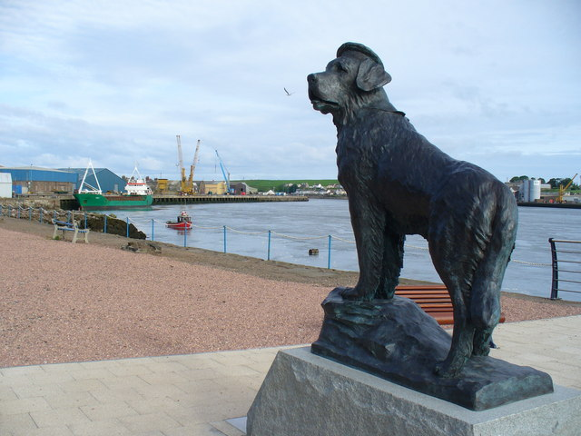 Bamse and Montrose Harbour The famous Norwegian seadog from WW2 is in a newly landscaped area adjacent to Montrose Harbour which takes in oil boats and general cargo ships. In the distance is Ferryden.